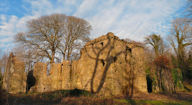 Candleston Castle View from the south of the recently preserved ruins of the fortified manor house originally built in the 14th (some sources say 15th) century.